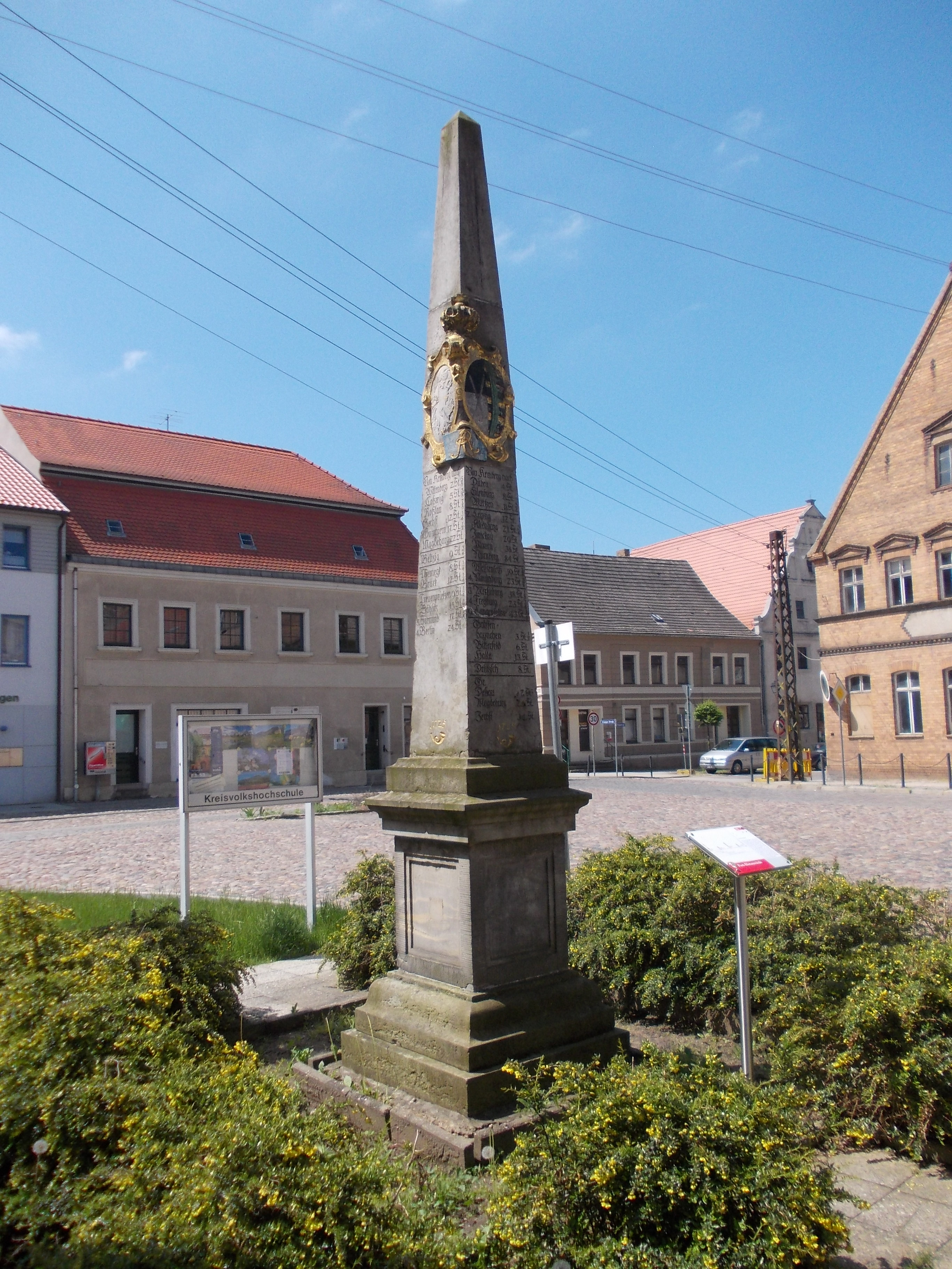 Post distance obelisk in the market square of Kemberg (Wittenberg district, Saxony-Anhalt)